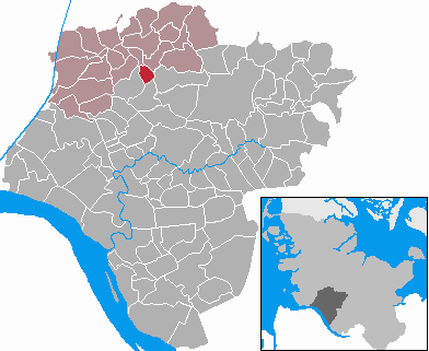 This map shows the area of the municipality Kaisborstel in the Kreis (district) Steinburg, Schleswig-Holstein, Germany.